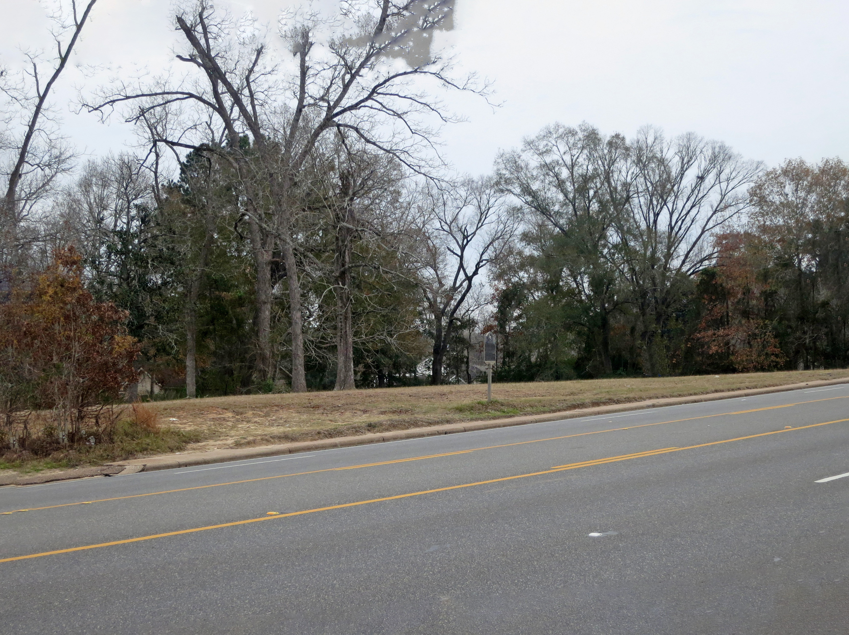 A Texas Historical Marker remembers the birthplace of Margo Jones the world-famed genius of drama. Won Broadway acclaim directing “The Glass Menagerie”. Led move to decentralize American theater. Established, in Dallas, theater-in-the-round (first professional, resident, repertory theater of its kind) and wrote book on its technique. Premiered 58 new plays. Discovered Tennessee Williams, William Inge and others. A dedicated “artistic humanist”, she provided channels through which the spiritual qualities of creative people could be communicated.